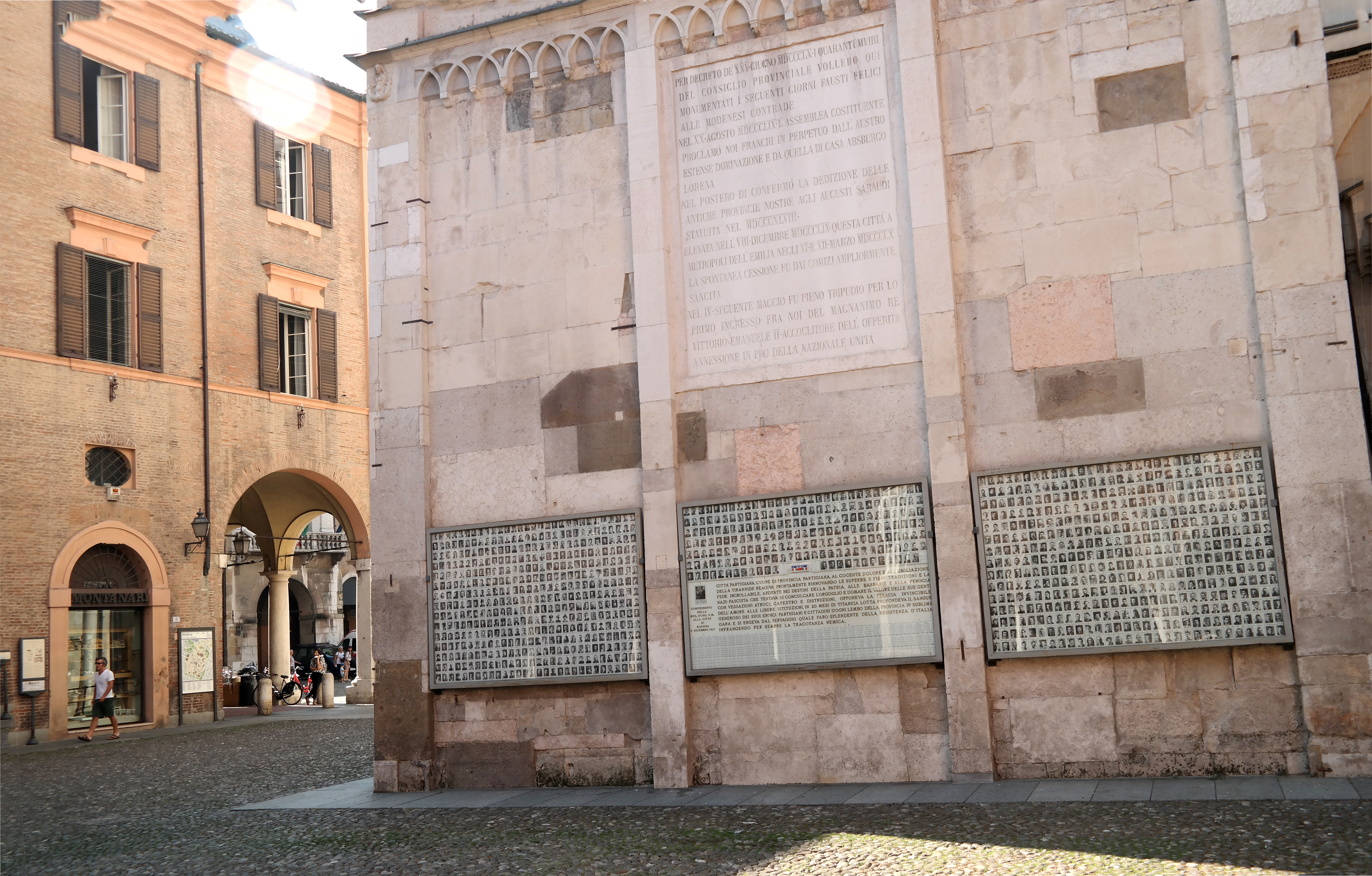 Ghirlandina's Shrine to the fallen Modena Partisans This is a photo of a monument which is part of cultural heritage of Italy.